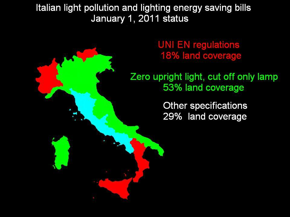 The picture shows status of Italian regional bills about light pollution and energy saving by external lighting. Most of Italian regions do use more severe specifications than UNI EN regulations, that allows 10% of overall external lighting go upward.